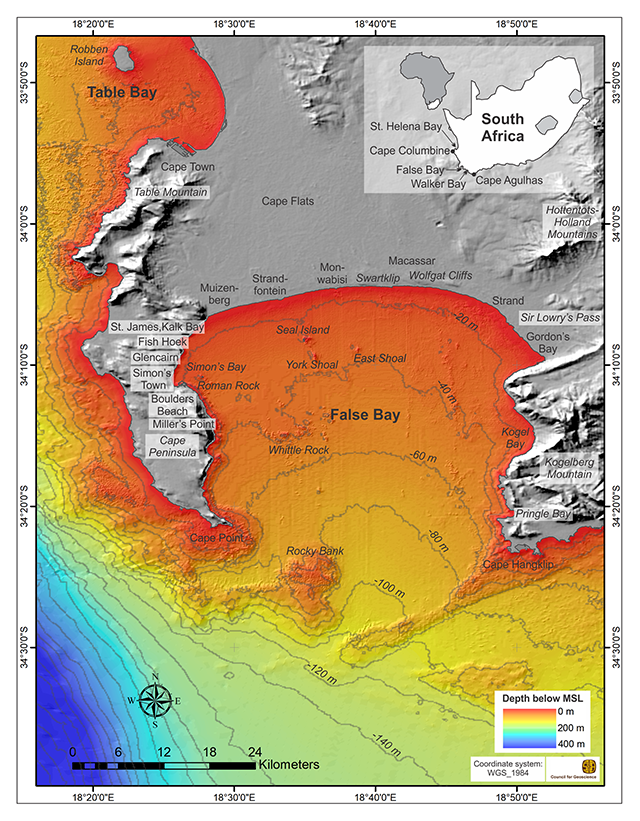 Bathymetric chart of False Bay, Western Cape, South Africa used in Pfaff et al. (2019): A synthesis of three decades of socio-ecological change in False Bay, South Africa: setting the scene for multidisciplinary research and management